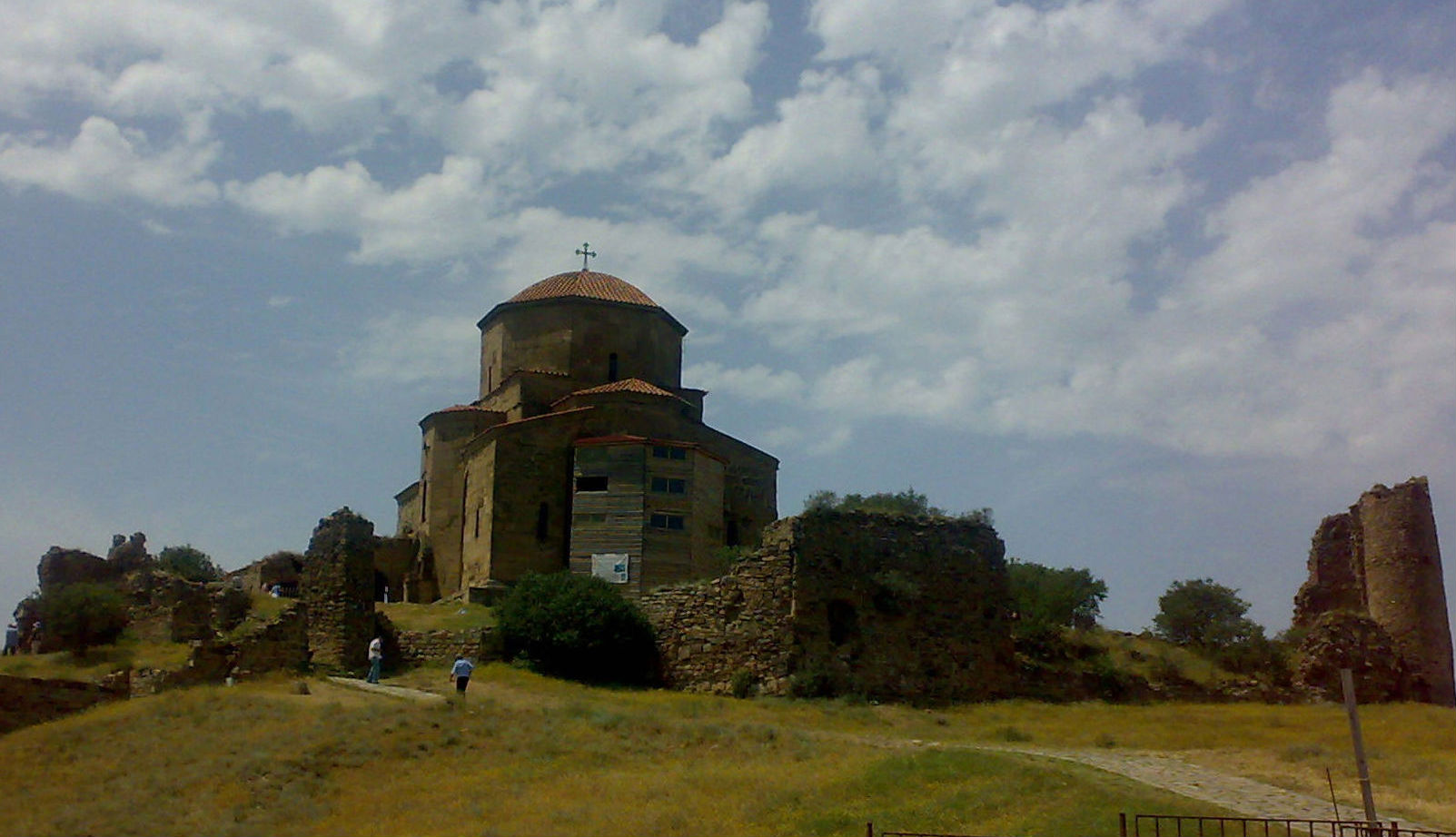 Jvari monastery